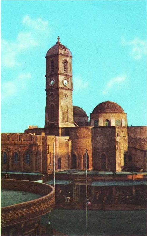 Latin Church, also known as Dominican Fathers' Church, in Mosul, Iraq.